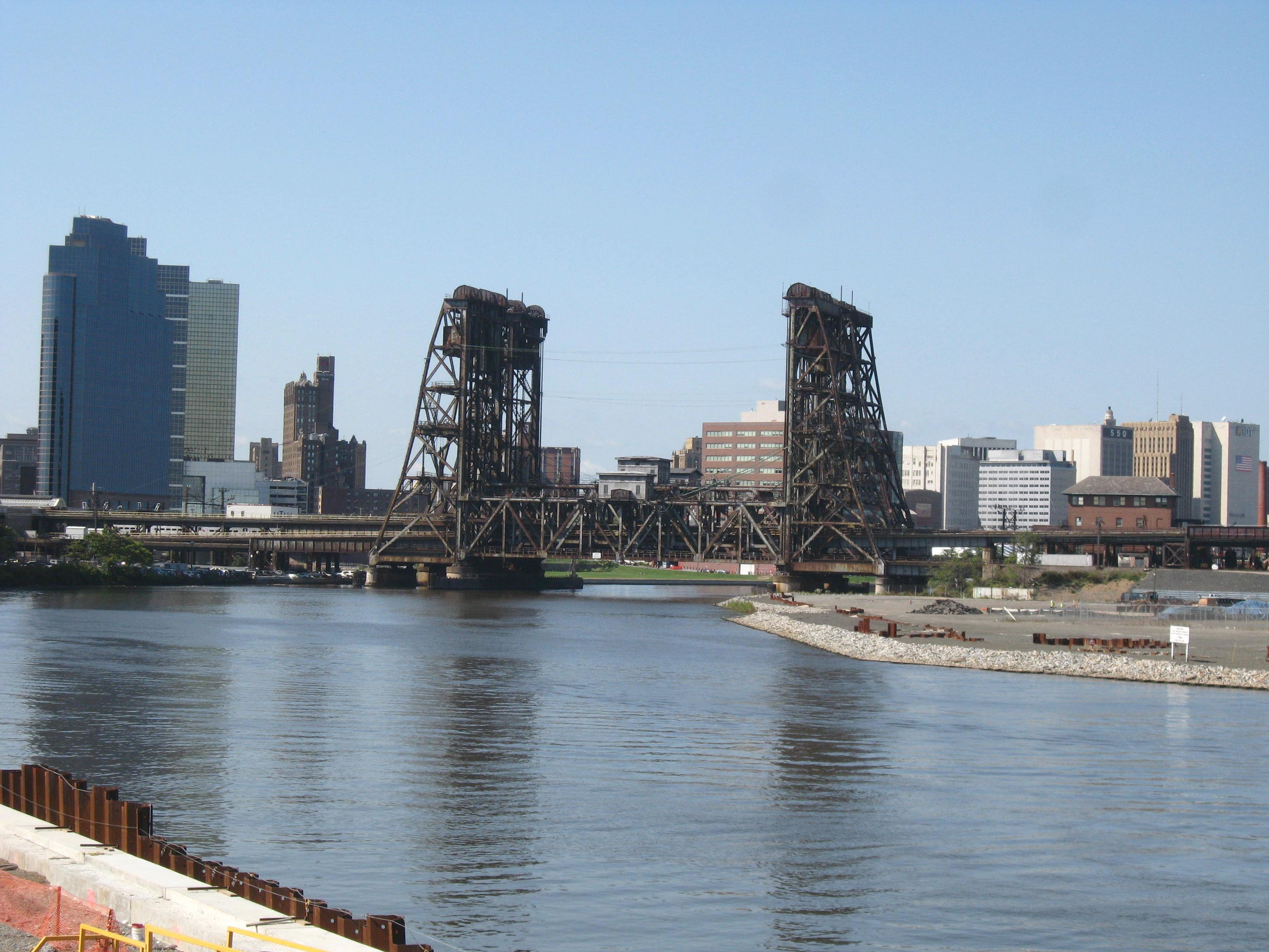 Looking west along the Passaic from Ironbound, at the Amtrak Dock bridge that carries Port Authority Trans-Hudson between Newark and Harrison on a sunny midday